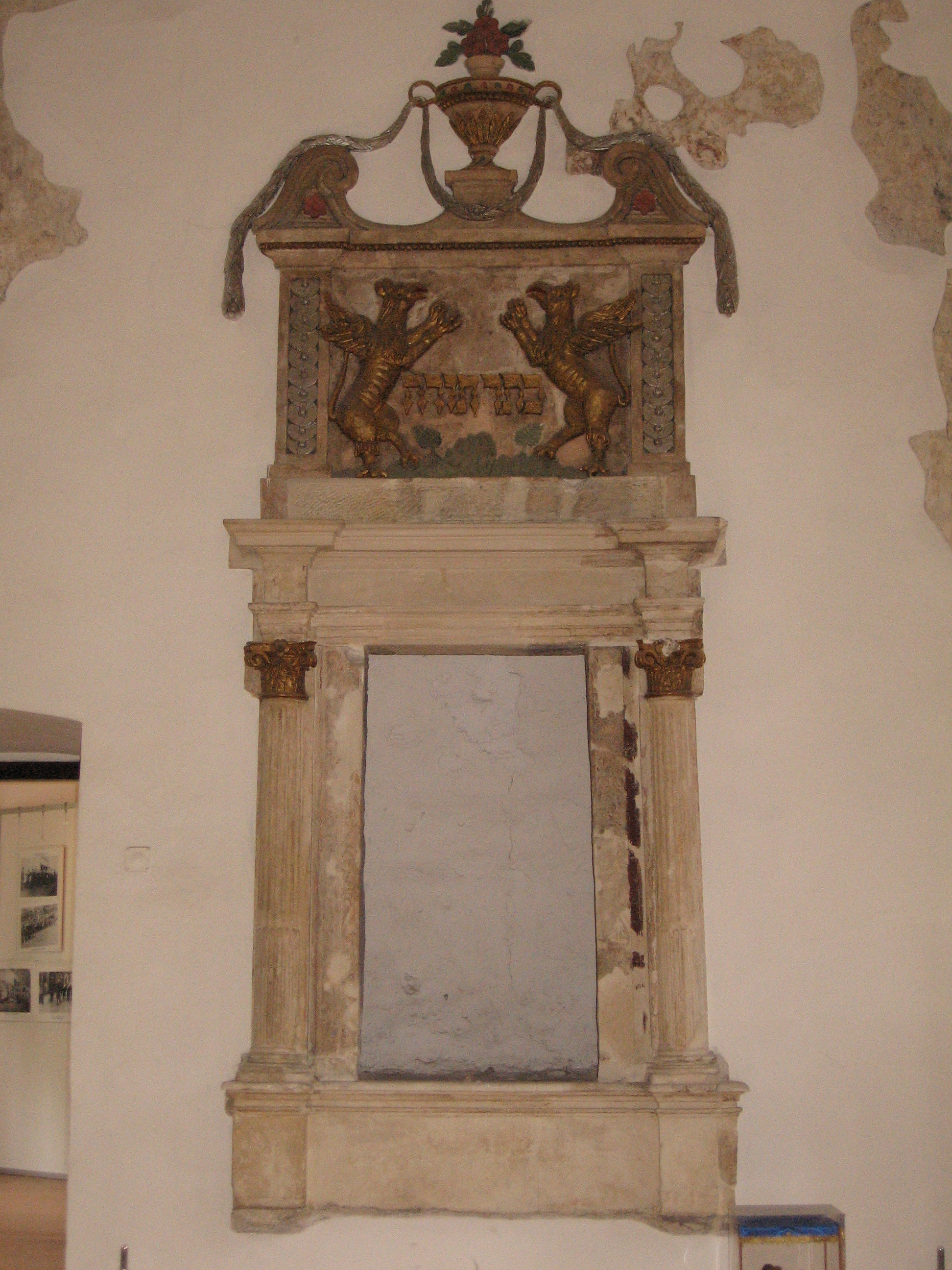 High Synagogue, Aron ha-Kodesh